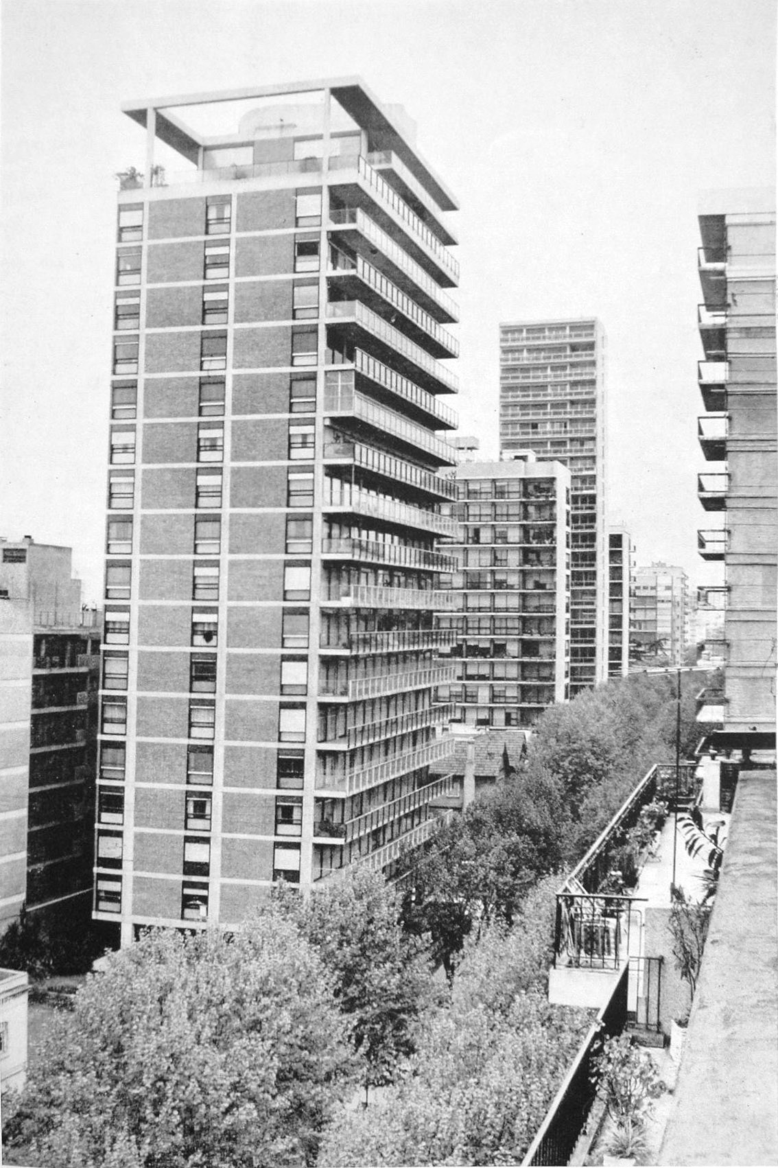 Apartment building on Arribeños 1495, designed by Mario Roberto Álvarez and completed in 1964. Belgrano section, Buenos Aires.